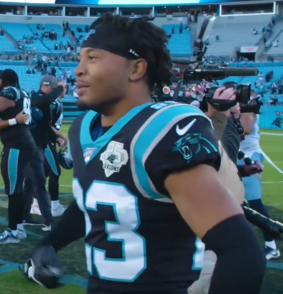 Javien Elliott 2019. Image from video Adam Humphries Mic'd Up vs. Panthers (Week 9) | Tennessee Titans, ~ 02:58